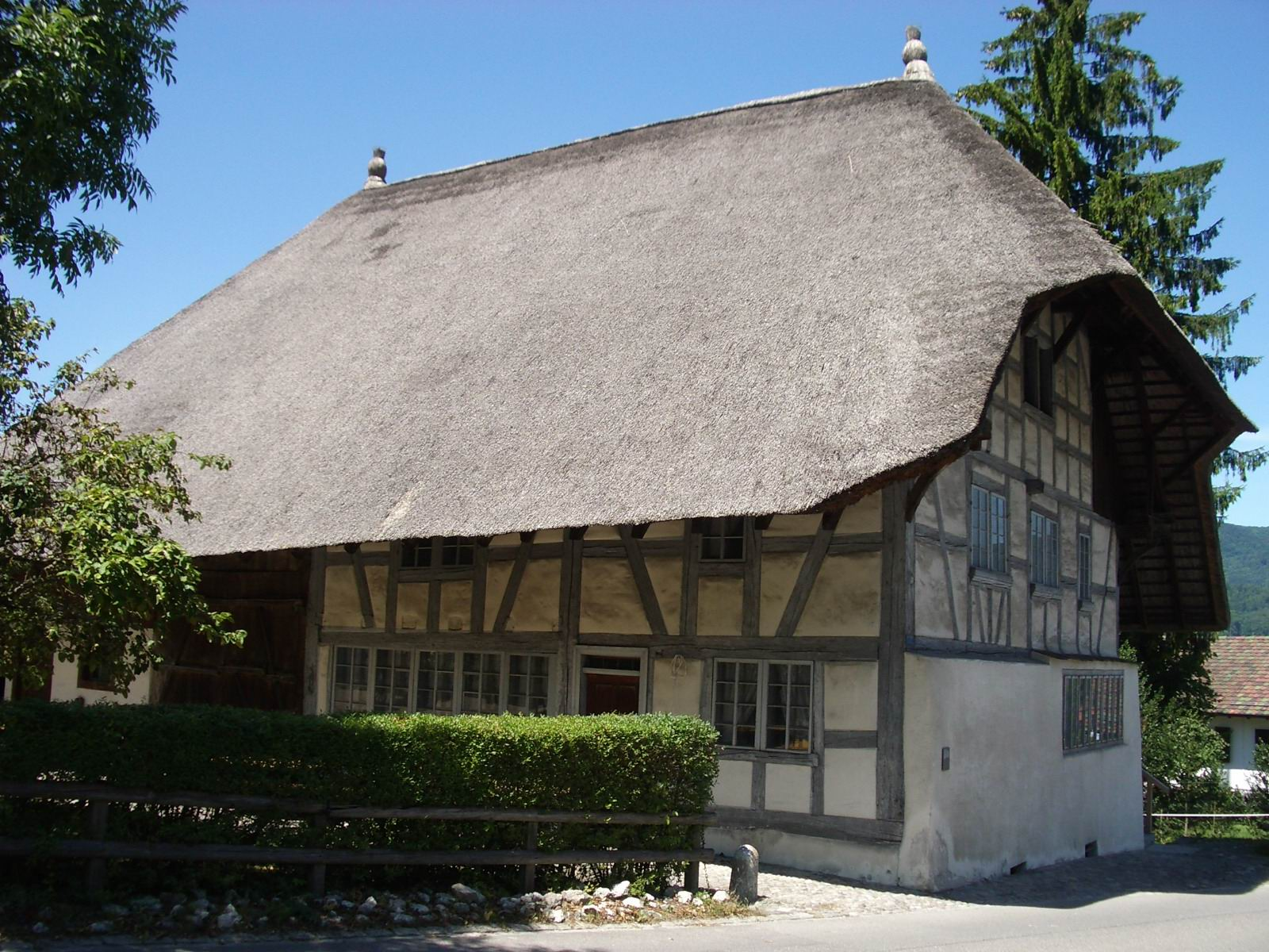 Hüttikon ZH, Switzerland